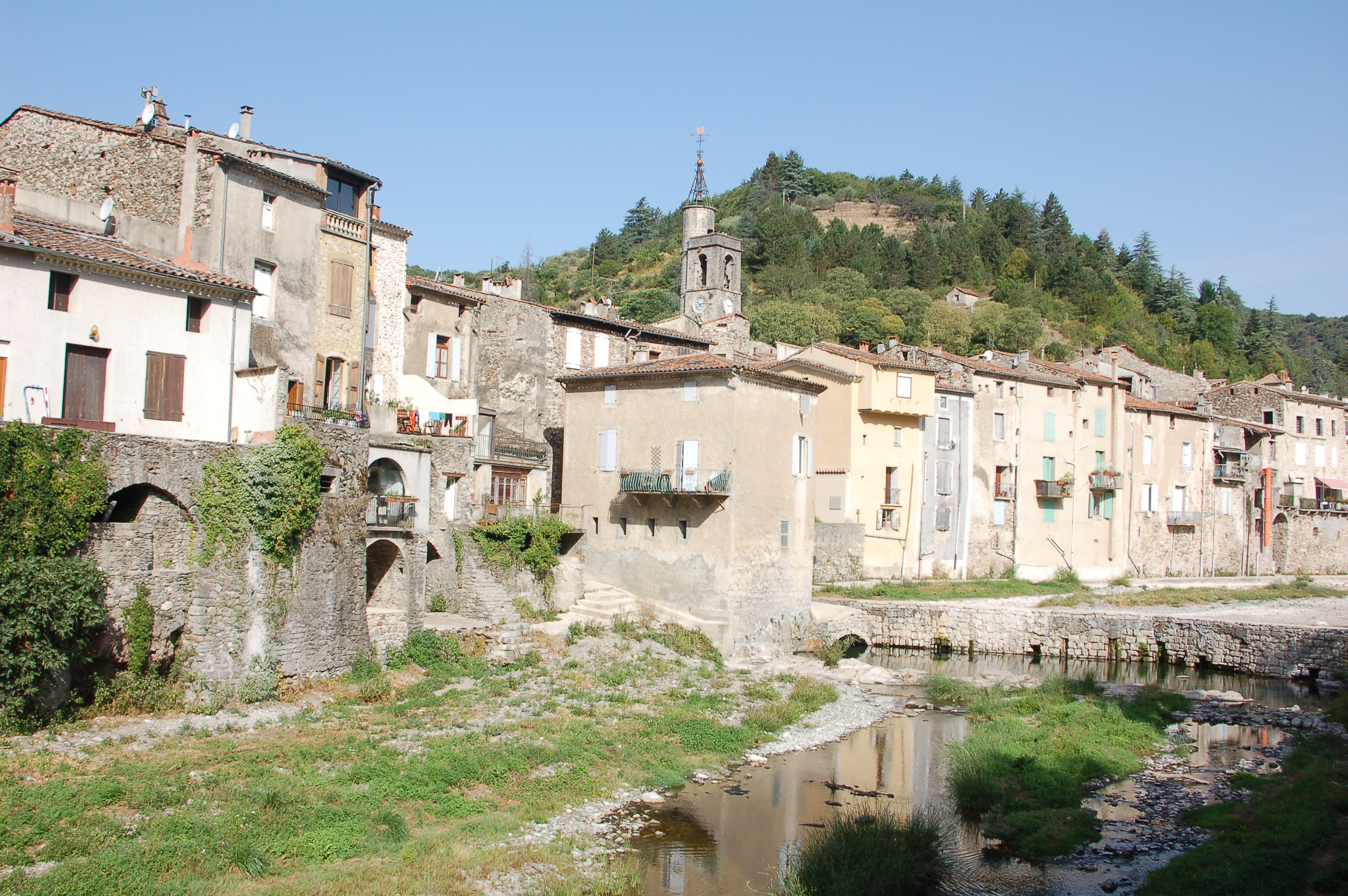 The old mill of village and the Rieutord (river).